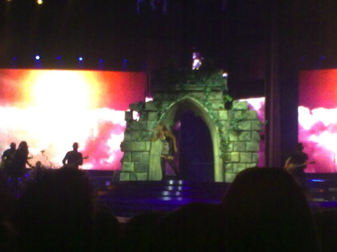 Leona Lewis performing "Don't Let Me Down" live on the first night of her Labyrinth Tour at Sheffield Arena